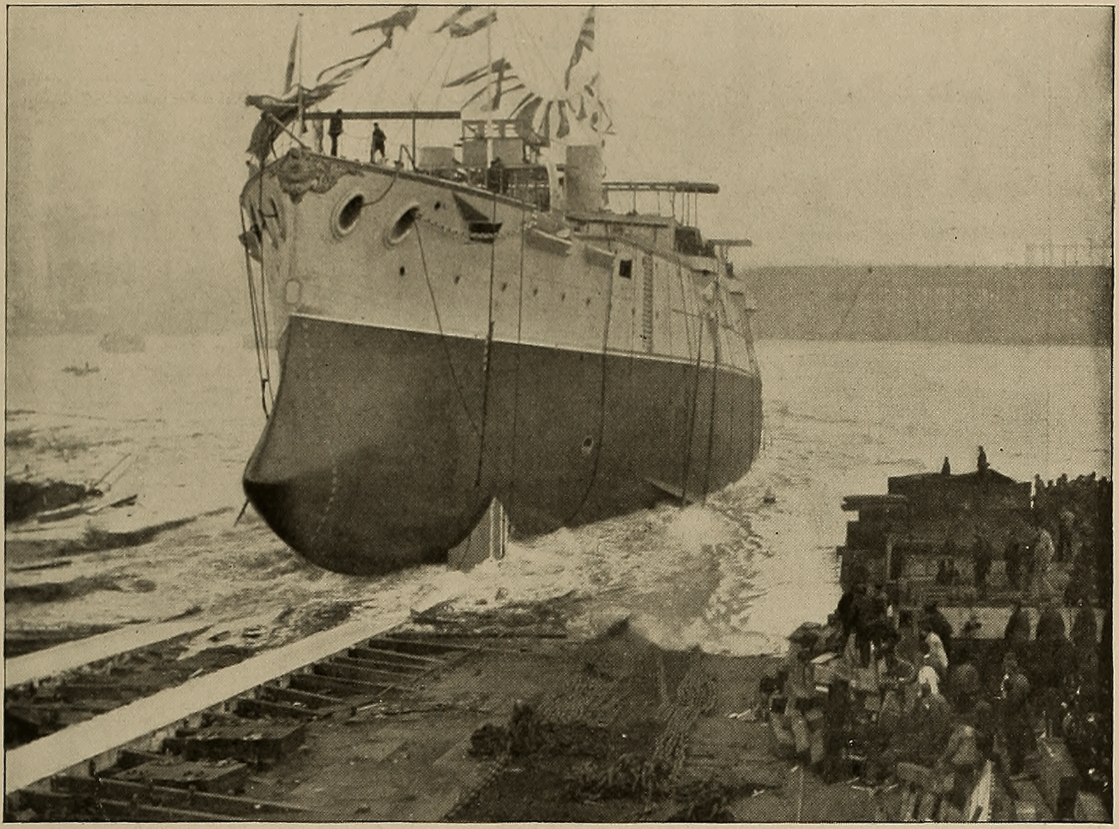 Cassier's Magazine of February 1898 had an article on page 275-292, written by Eustace Tennyson d'Eyncourt and titled The Japanese Battleship Yashima. It was accompanied by a number of illustrations, including this photo, showing the launch of the vessel, 28 February 1896 at Armstrong, Whitworth and Co in Elswick, on page 285.